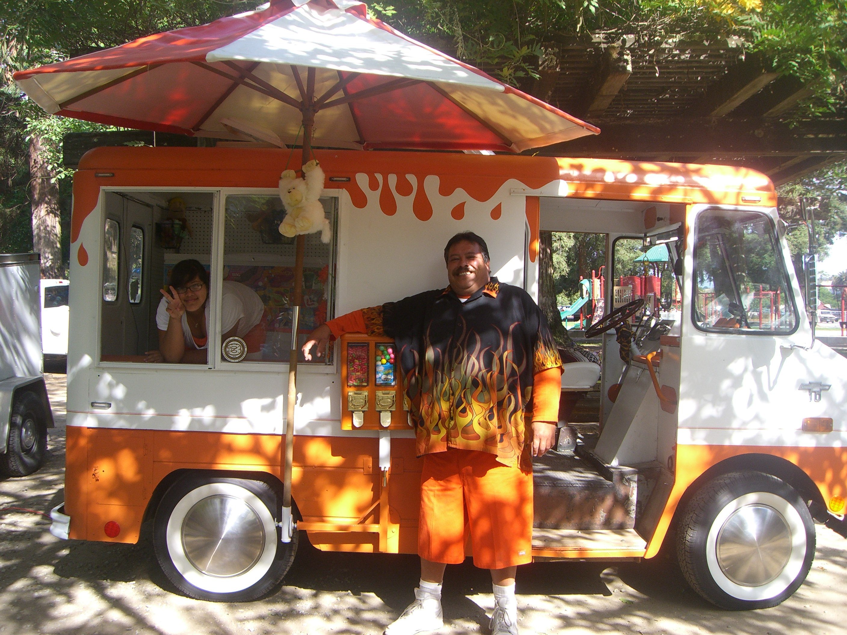 1969 Chevy ice cream truck